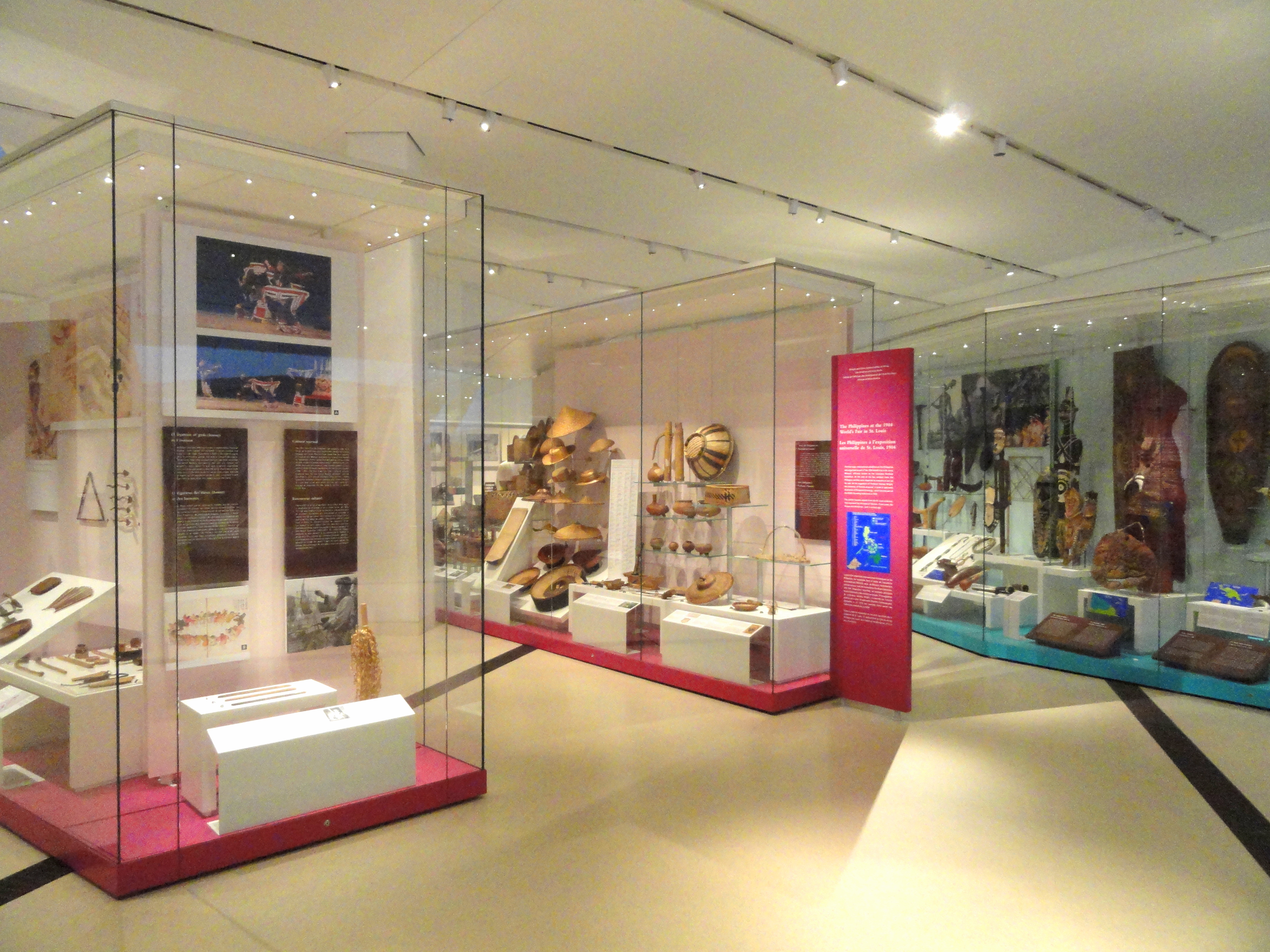 Exhibit in the Royal Ontario Museum, Toronto, Ontario, Canada. This exhibit is old enough so that it is in the public domain, and photography was permitted in the museum. I took this photograph and release it into the public domain.